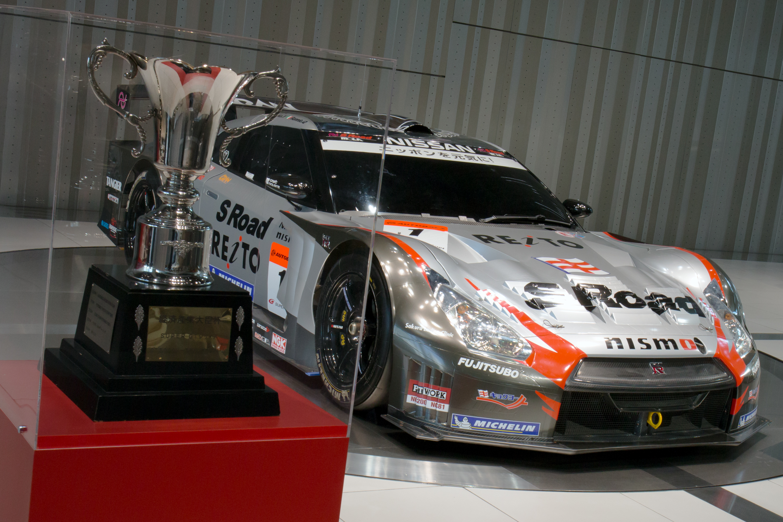 S Road Mola GT-R and the 2012 Super GT trophy of the minister of Economy, Trade and Industry